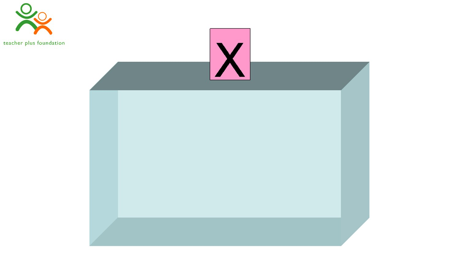 "Next to" - one of a set of images used for teaching prepositions of place.